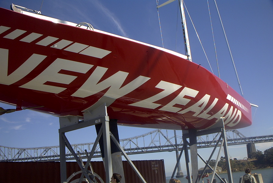 New Zealand IACC boat NZL-20.